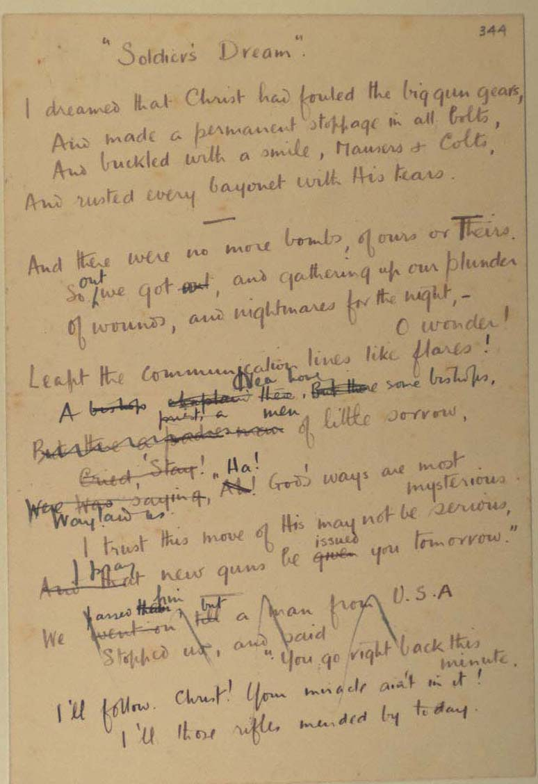 A The title of the poem is Soldier’s Dream, this is the original manuscript written by Wilfred Owen